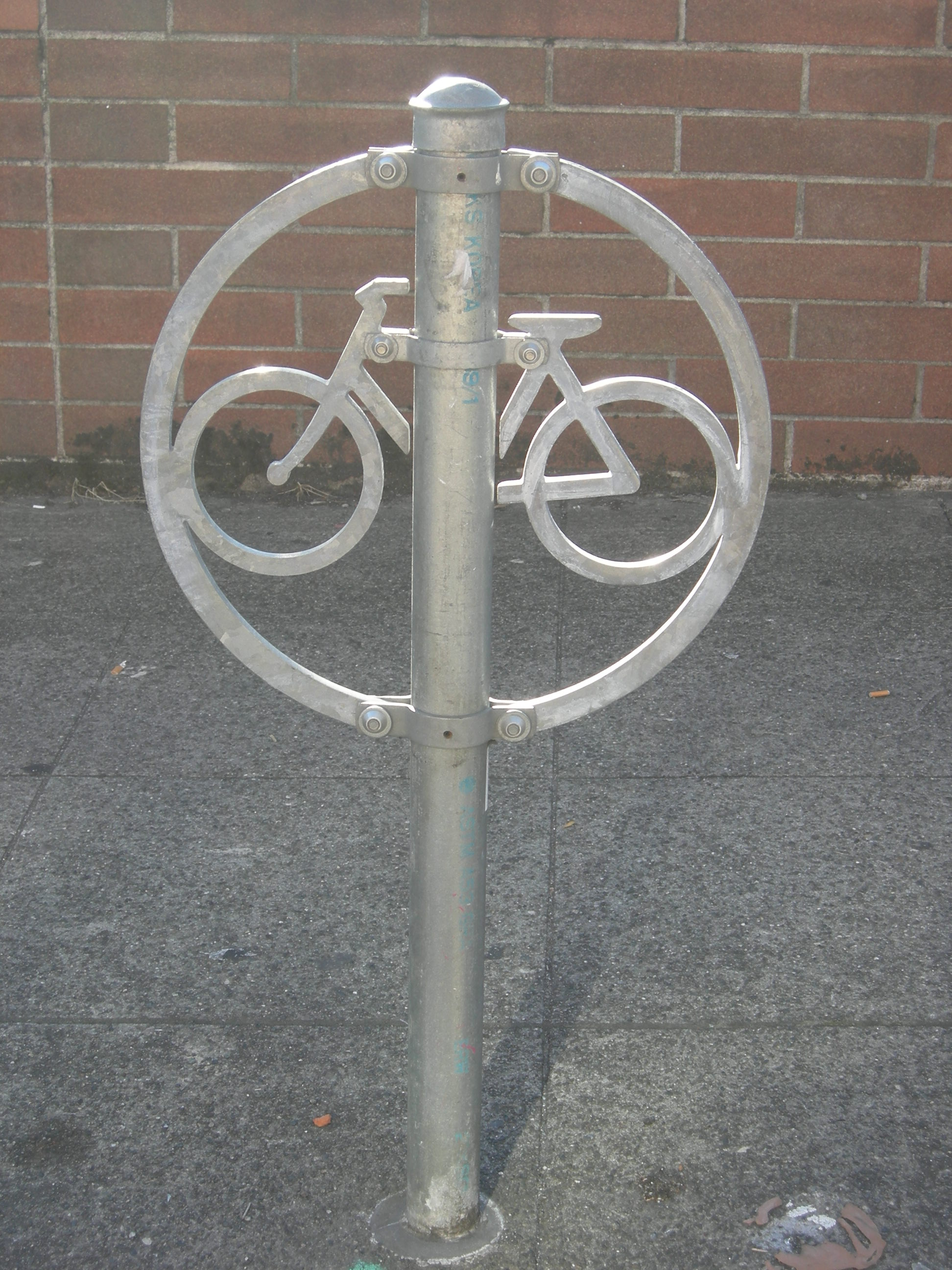 One of several types of bike rack common in Seattle, Washington has a major component designed to look like a stylized bicycle.